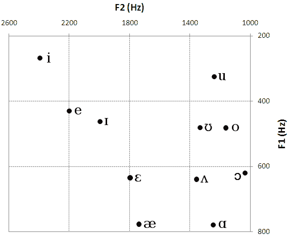 Bradlow measures of formant values for the eleven monophthongs of General American English in CVC words (each value is an average of 20 tokens: 4 speakers x 5 repetitions).